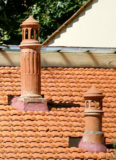 Old chimney pot in Florence